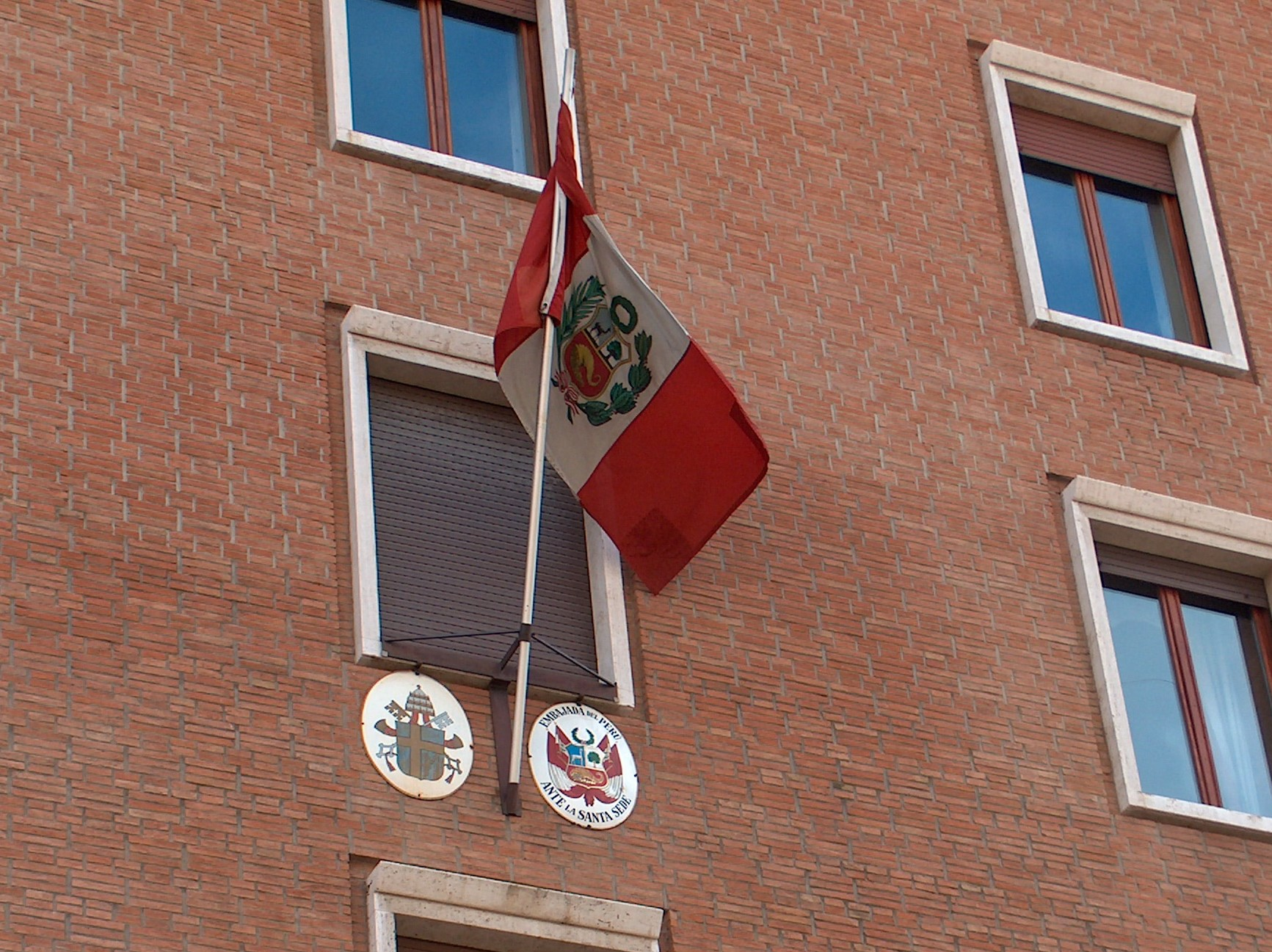 Peruvian embassy to the Holy See in Rome, Italy